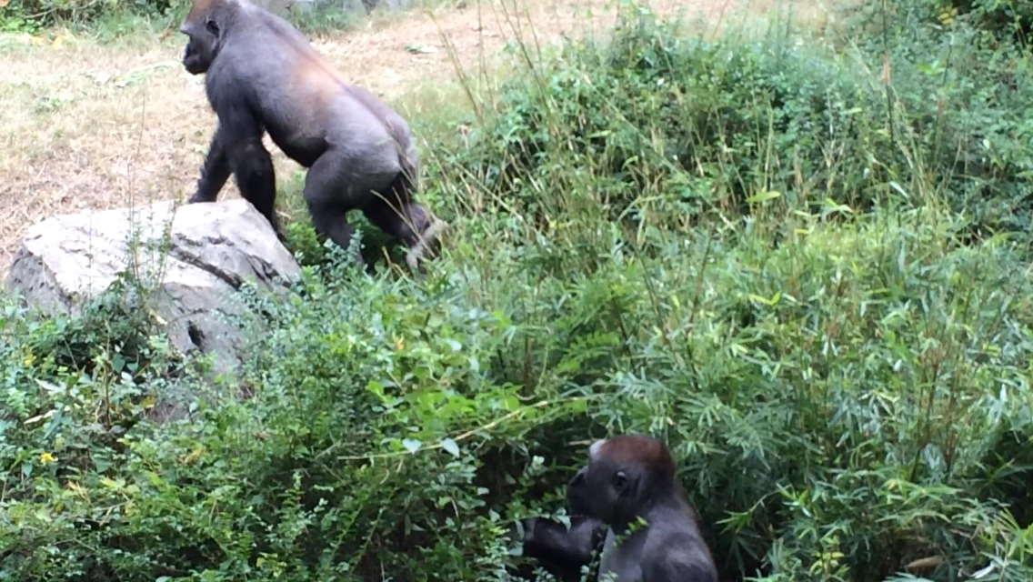 Shana and Zola playing